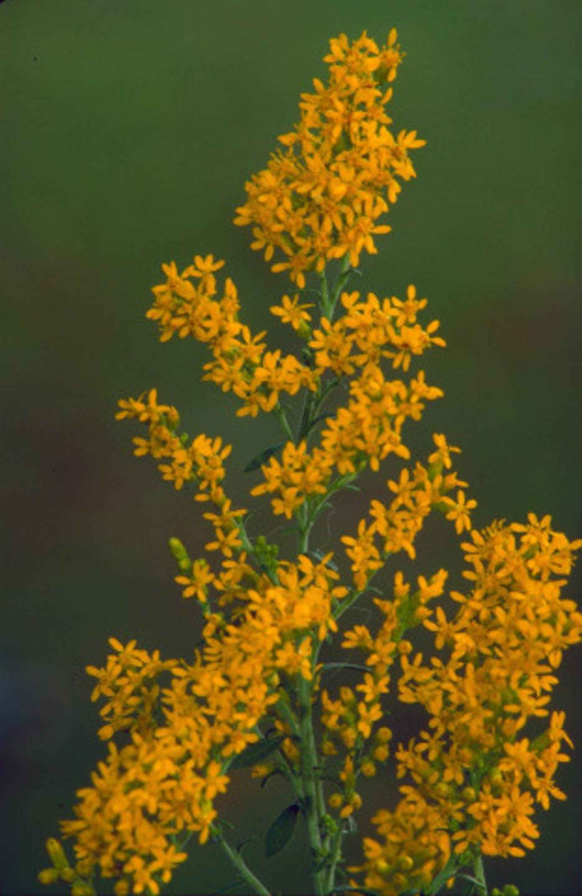 Image title: Gray goldenrod solidago nemoralis Image from Public domain images website